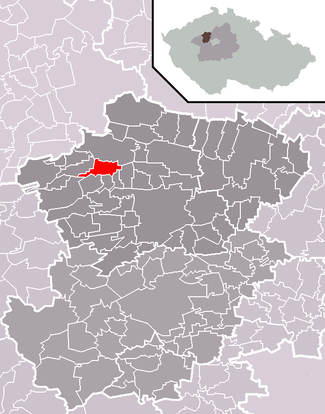 Location of Třebíz municipality within Kladno District and administrative area of Slaný as a Municipality with Extended Competence.